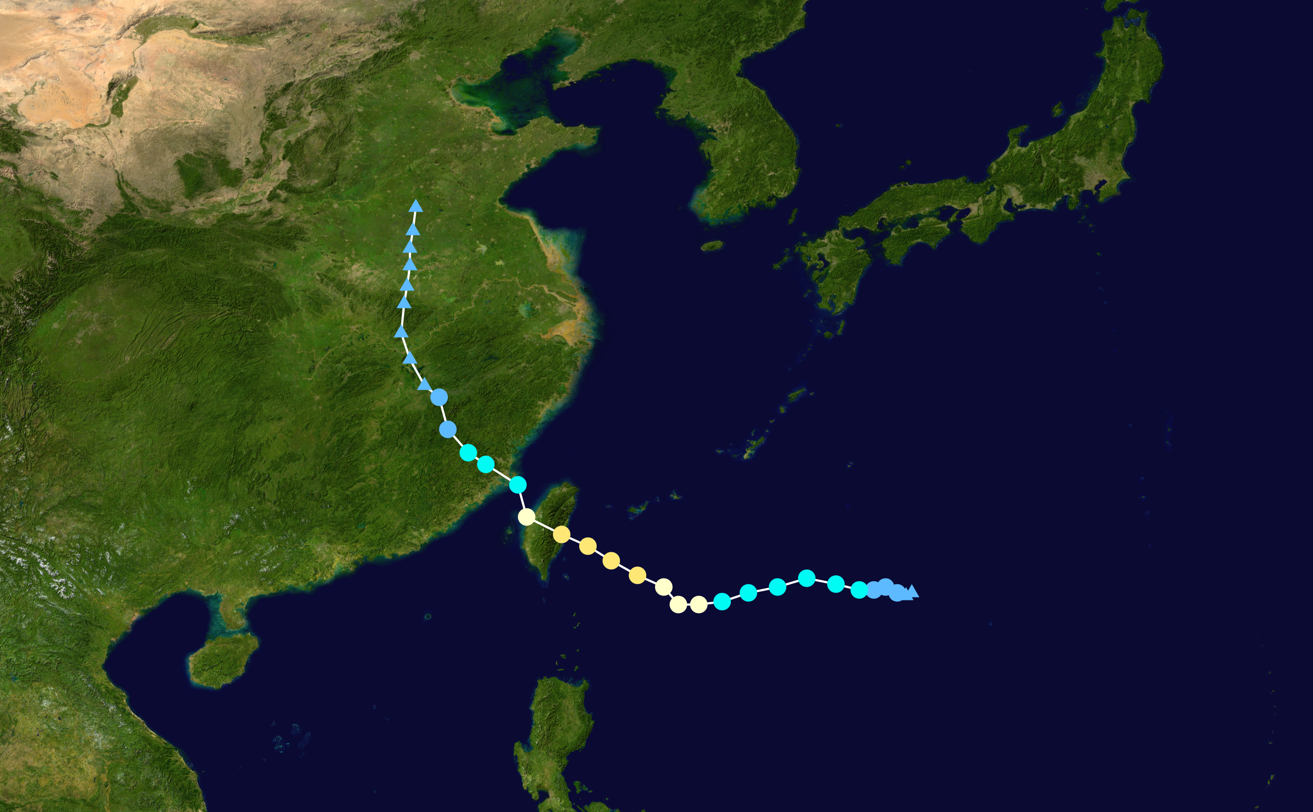 Track map of Typhoon Fung-wong of the 2008 Pacific typhoon season. The points show the location of the storm at 6-hour intervals. The colour represents the storm's maximum sustained wind speeds as classified in the Saffir–Simpson scale (see below), and the shape of the data points represent the nature of the storm, according to the legend below. Saffir–Simpson scale Tropical depression≤38 mph≤62 km/h Category 3111–129 mph178–208 km/h Tropical storm39–73 mph63–118 km/h Category 4130–156 mph209–251 km/h Category 174–95 mph119–153 km/h Category 5≥157 mph≥252 km/h Category 296–110 mph154–177 km/h Unknown Storm type Tropical cyclone Subtropical cyclone Extratropical cyclone / Remnant low / Tropical disturbance / Monsoon depression